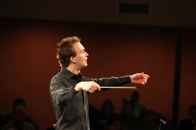 Andrew Gourlay conducting